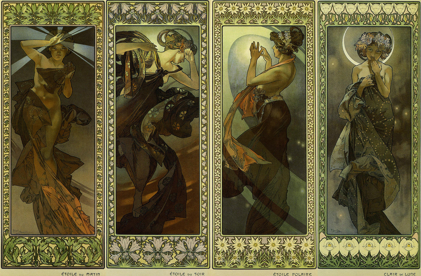 Alfons Mucha, Moon and Stars four decorative panels 1902